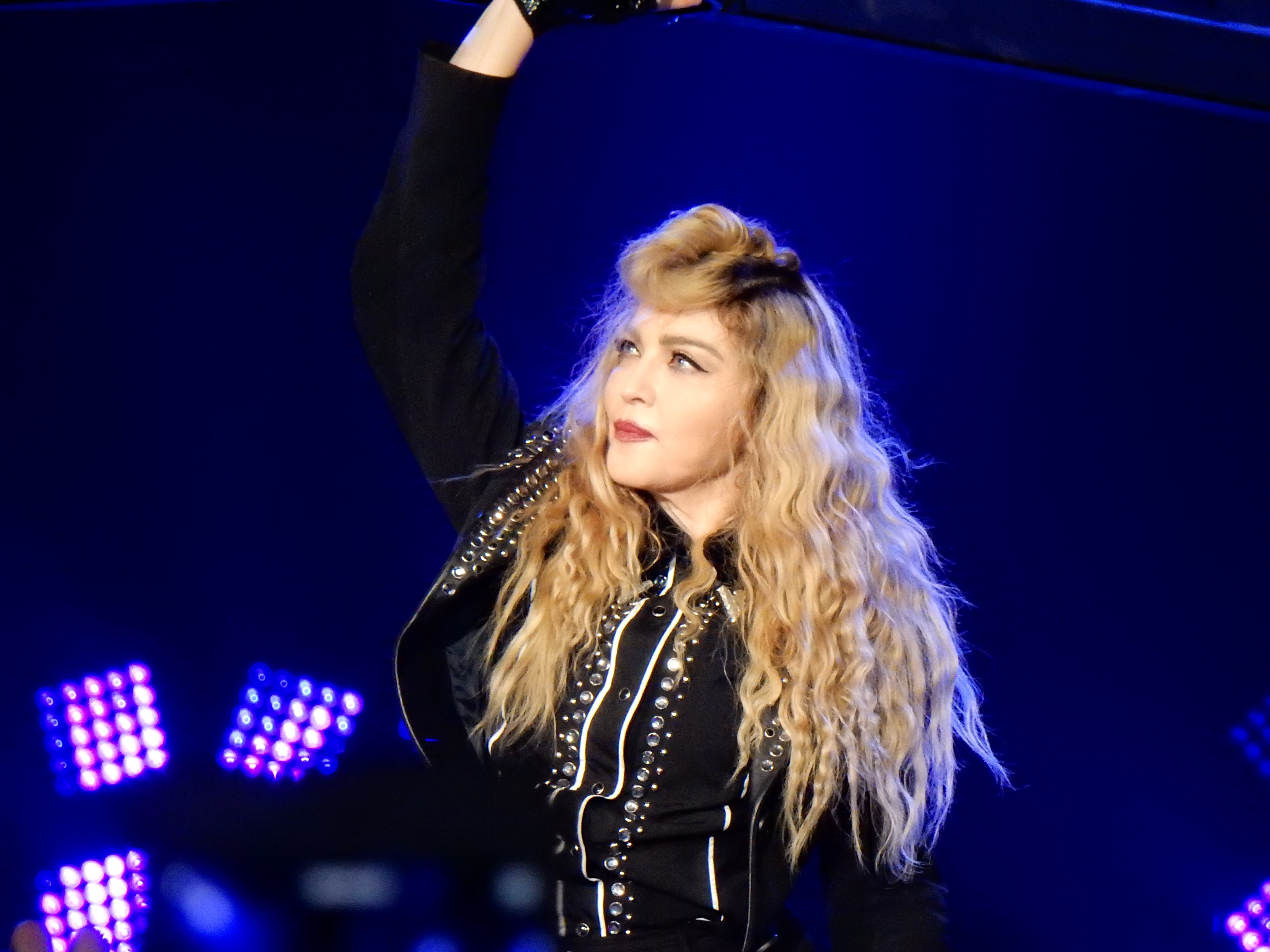 Madonna - Rebel Heart Tour 2015 - Paris 2